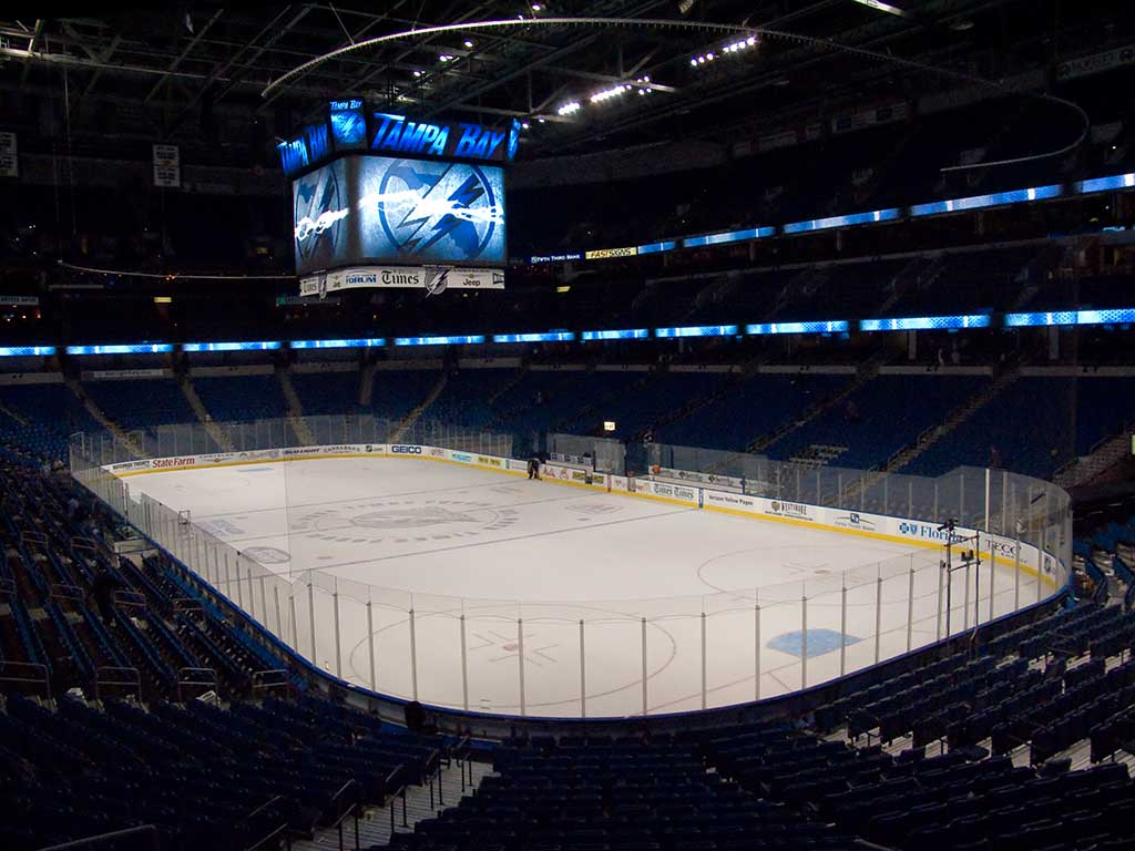 Tampa Bay Times Forum, prior to NHL ice hockey game Pittsburgh Penguins vs. Tampa Bay Lightning